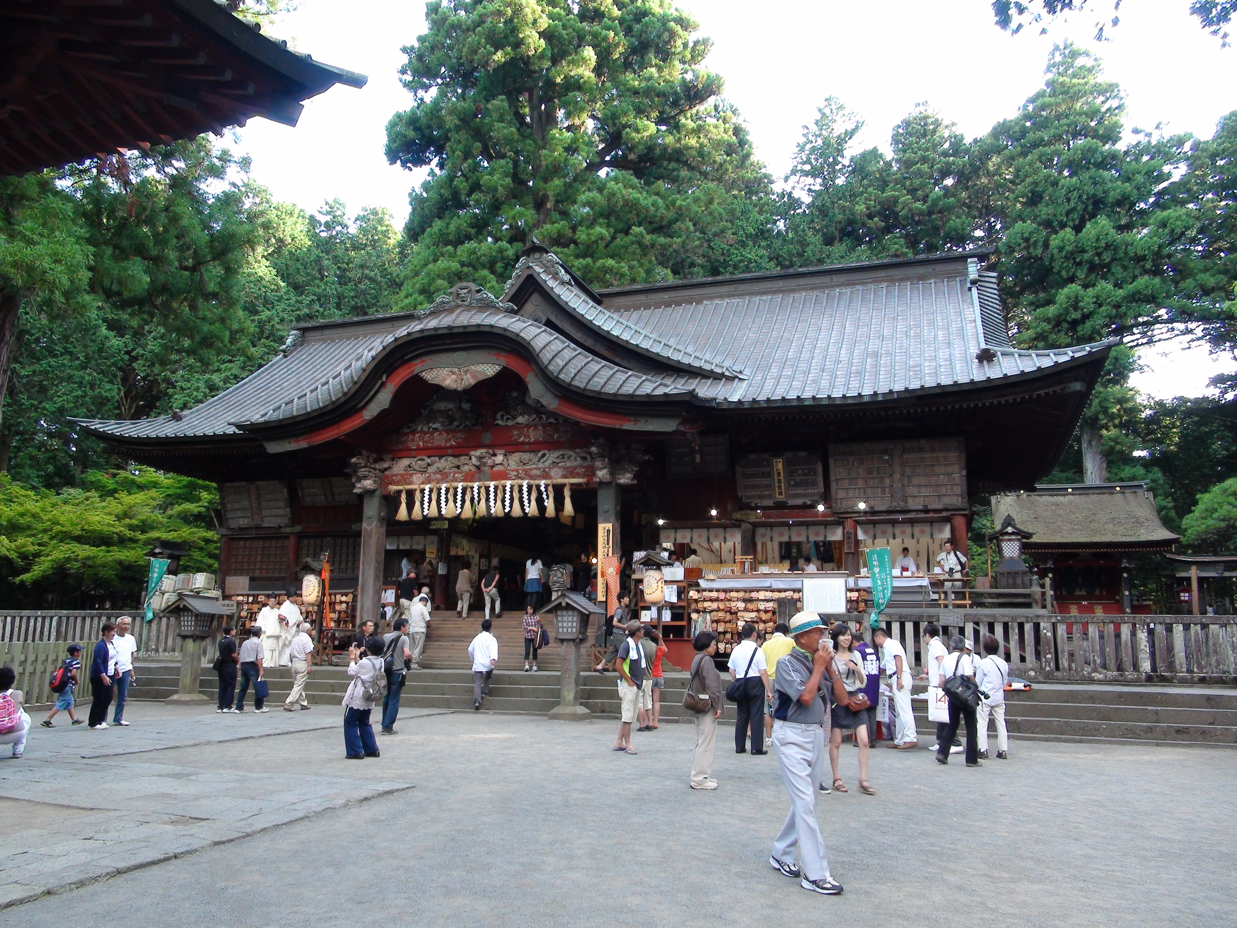 Northern Fuji Sengen Shrine at the base of Mt. Fuji